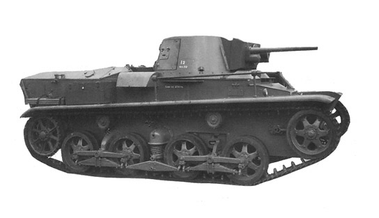 Swedish Landsverk L-10 tank